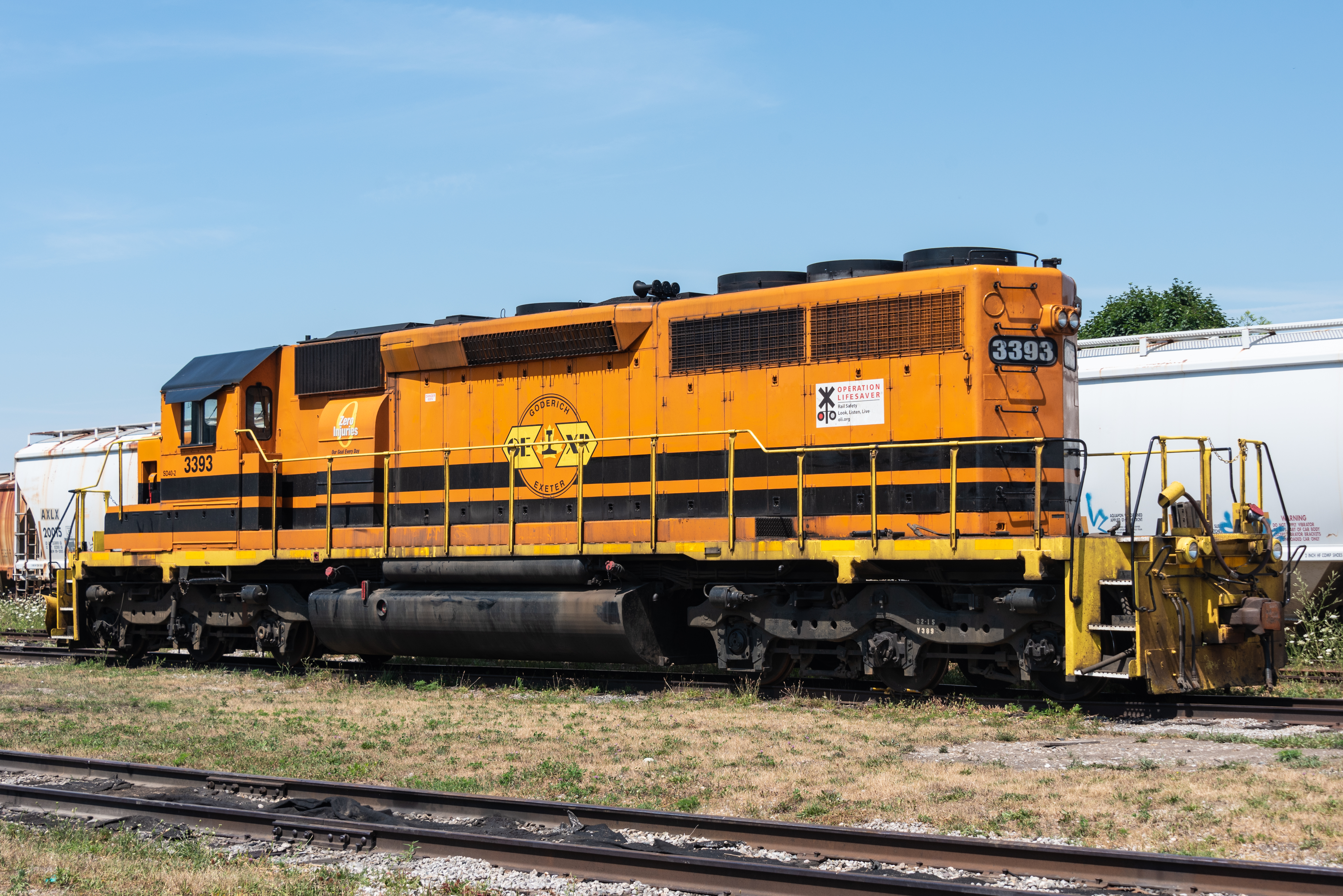 Goderich and Exeter Railway EMD SD40-2 locomotive # 3393 in GEXR colors at the holding yards on Maitland Street South in Goderich, Ontario Canada on July 19, 2018.